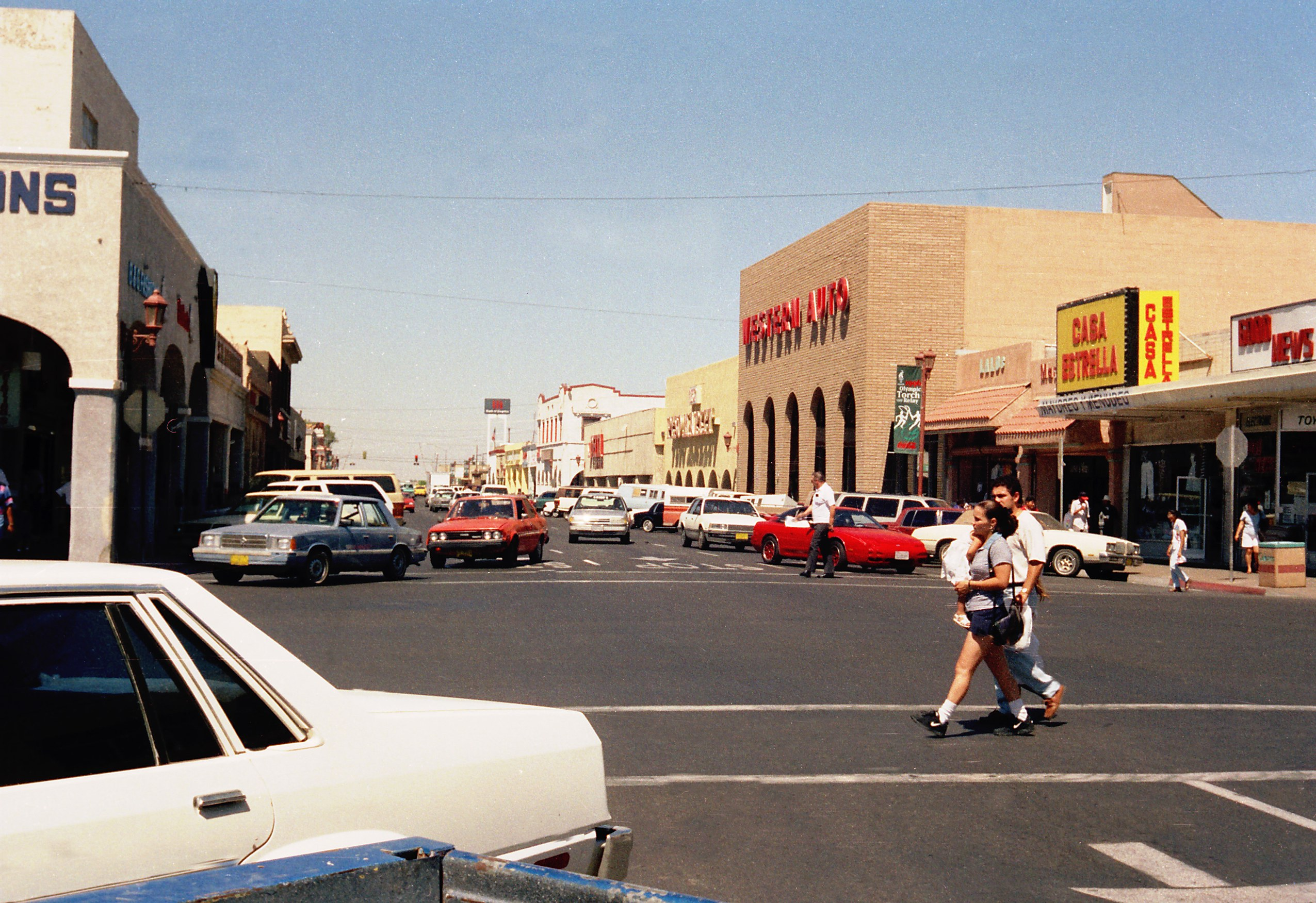 Calexico (California)-in the 2nd street